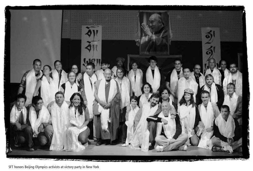 SFT's 2008 Olympics Commemorative Newsletter